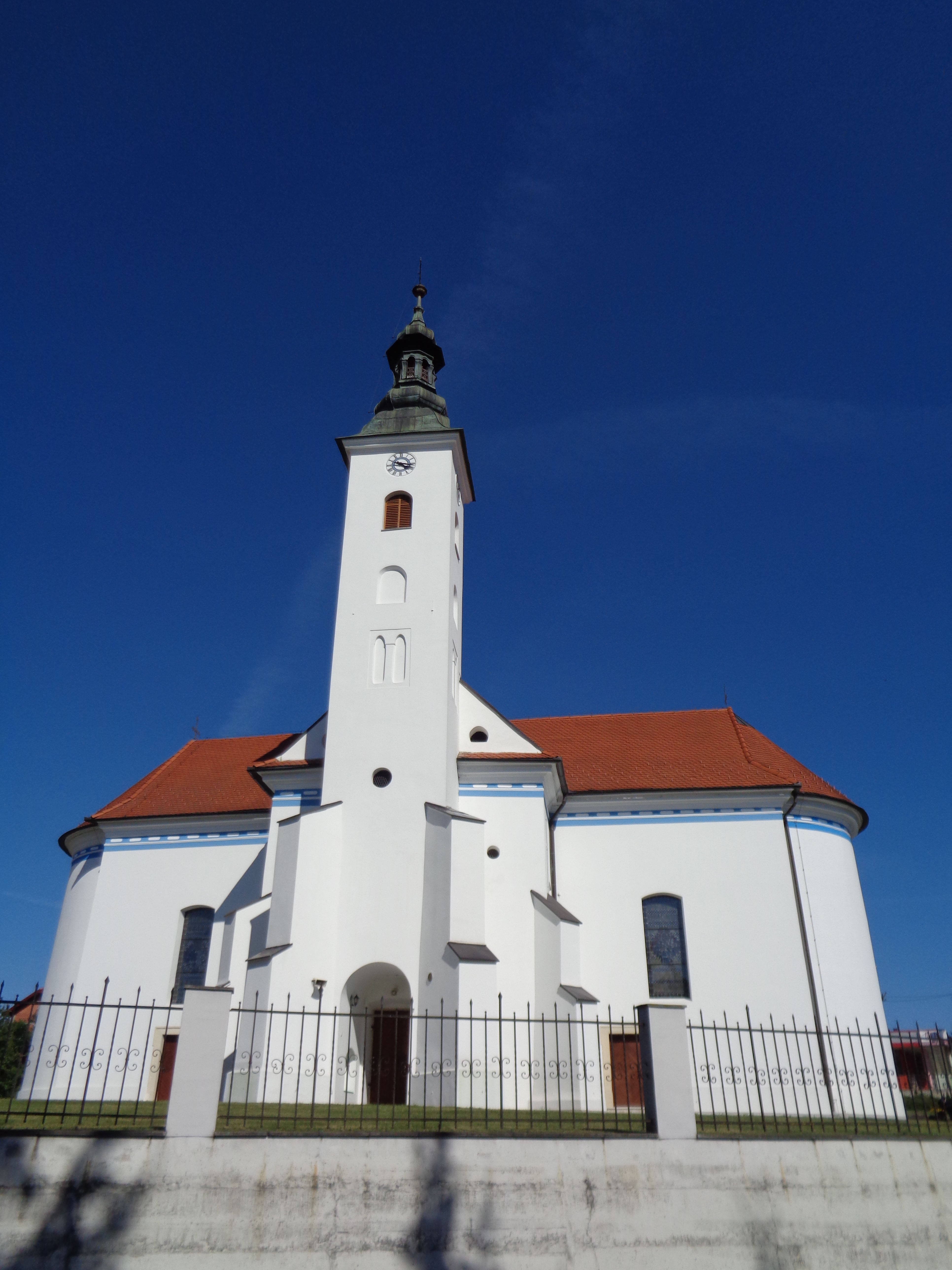 Saint Martin the Bishop Church in Sveti Martin na Muri village, Medjimurje County, Croatia